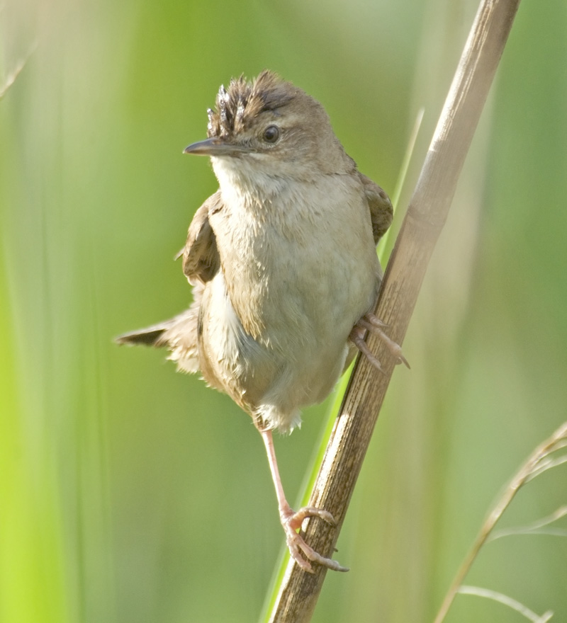 Savi's Warbler (Locustella luscinioides) Russia, Moscow region, Mytischi, Yauza river